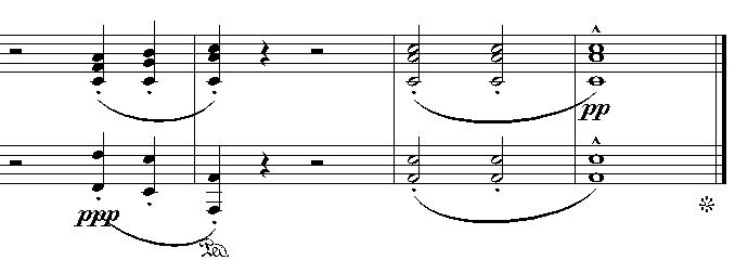 Impromptu No. 1 in A flat major, Op. 29 (coda)